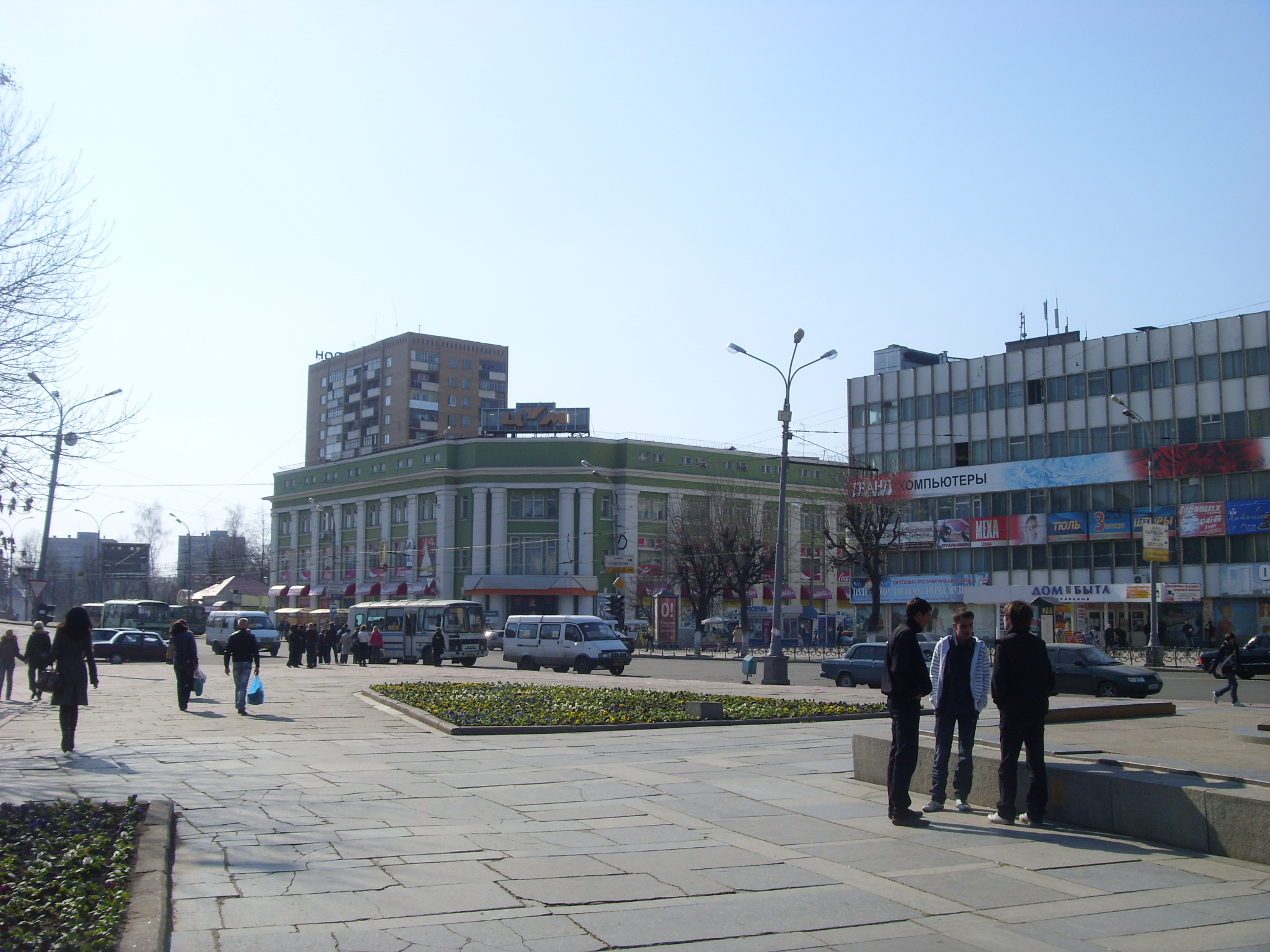 Oryol. Central Universal Shop on the Mira Square.